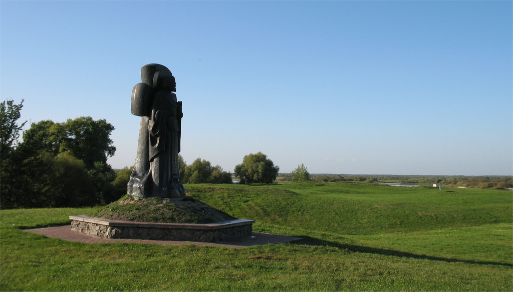 View from the castle hill of historical town of Turov, towards river Pripyat, Gomel region, Belarus. The old castle and other buildings on the hill have been distroyed, although some foundings of them can be seen in a separate museum/exhibition house nearby. Statue is of bishop Cyril of Turaw (Kirill of Turov, Кирилла Туровского).